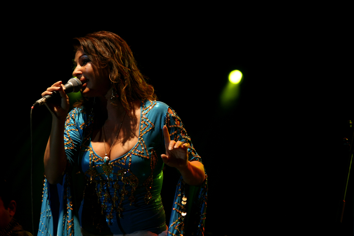 Natacha Atlas performing live in 2008